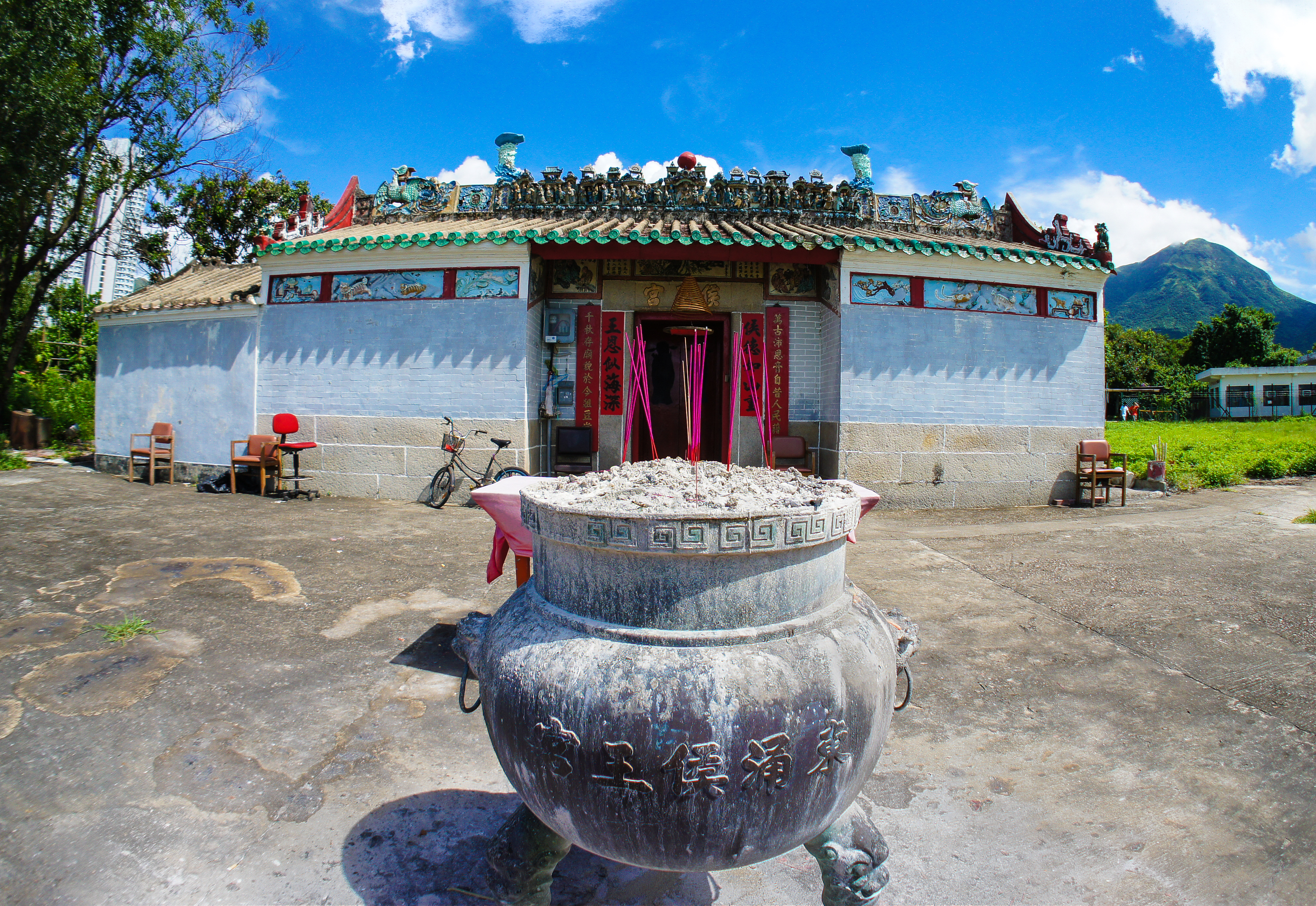 An incense burner outside of the Hau Wong Temple, Tung Chung, Lantau Island, Hong Kong.